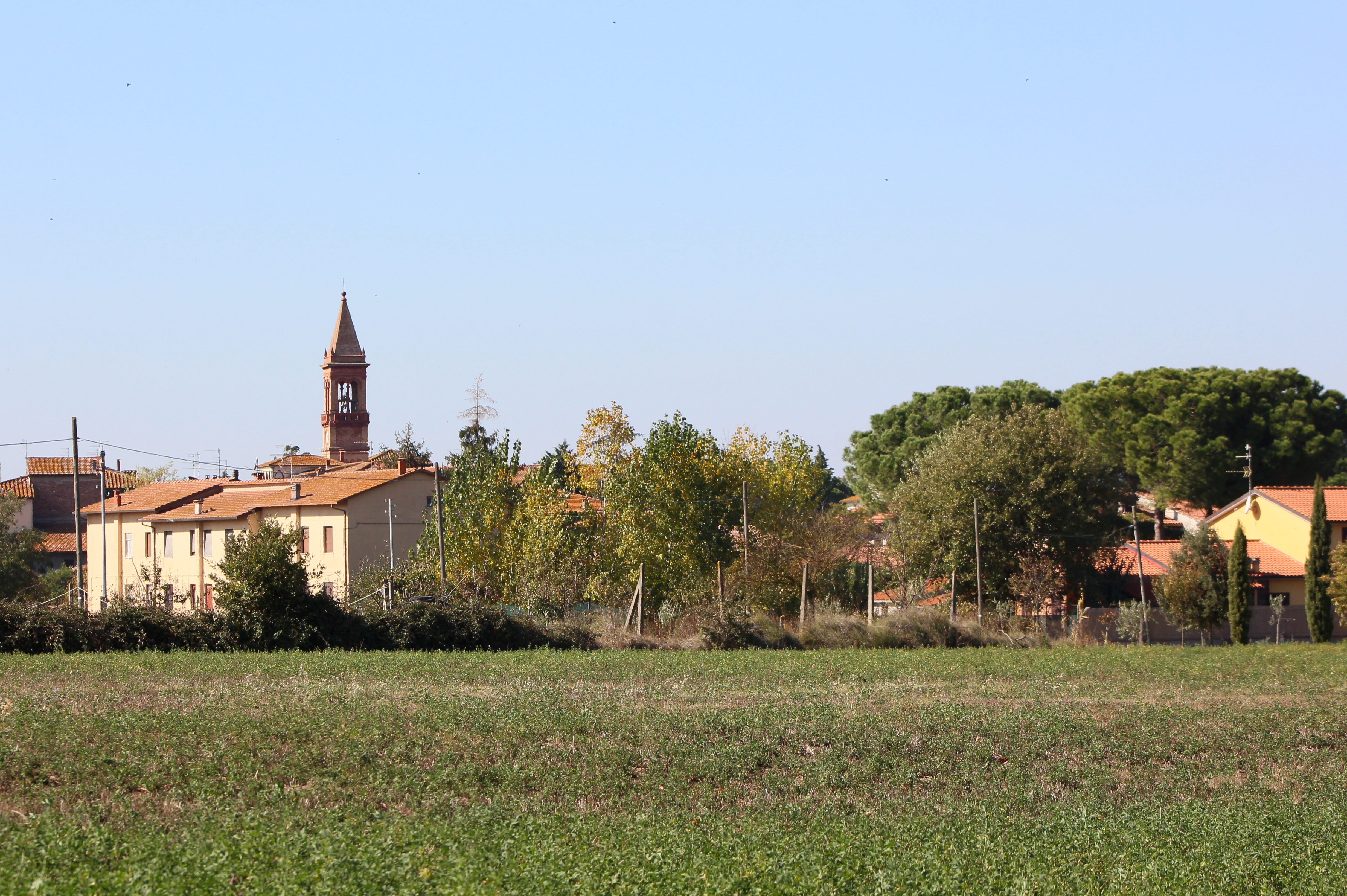 Panicarola, hamlet of Castiglione del Lago, Province of Perugia, Umbria, Italy